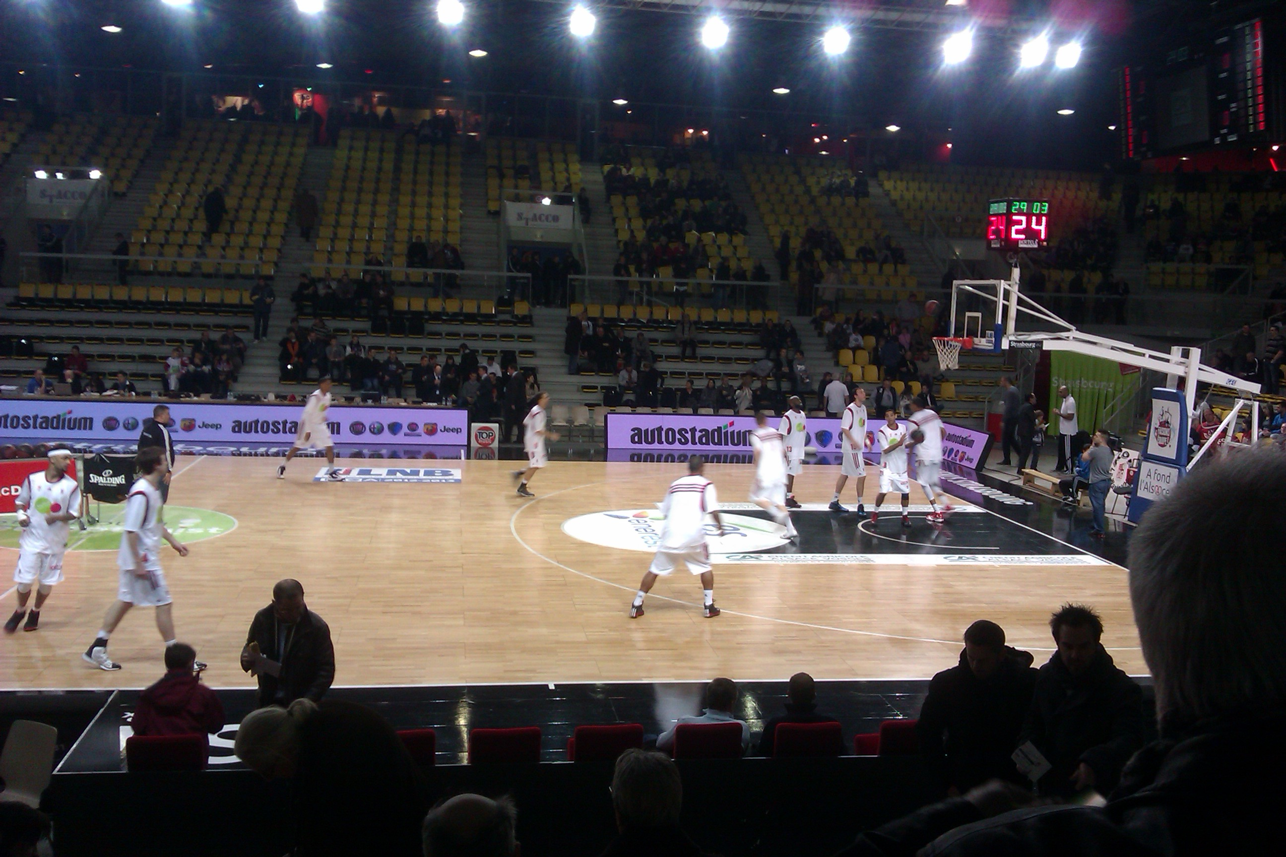 The Rhenus Sport during a game of Strasbourg IG against the Paris-Levallois Basket in 2013